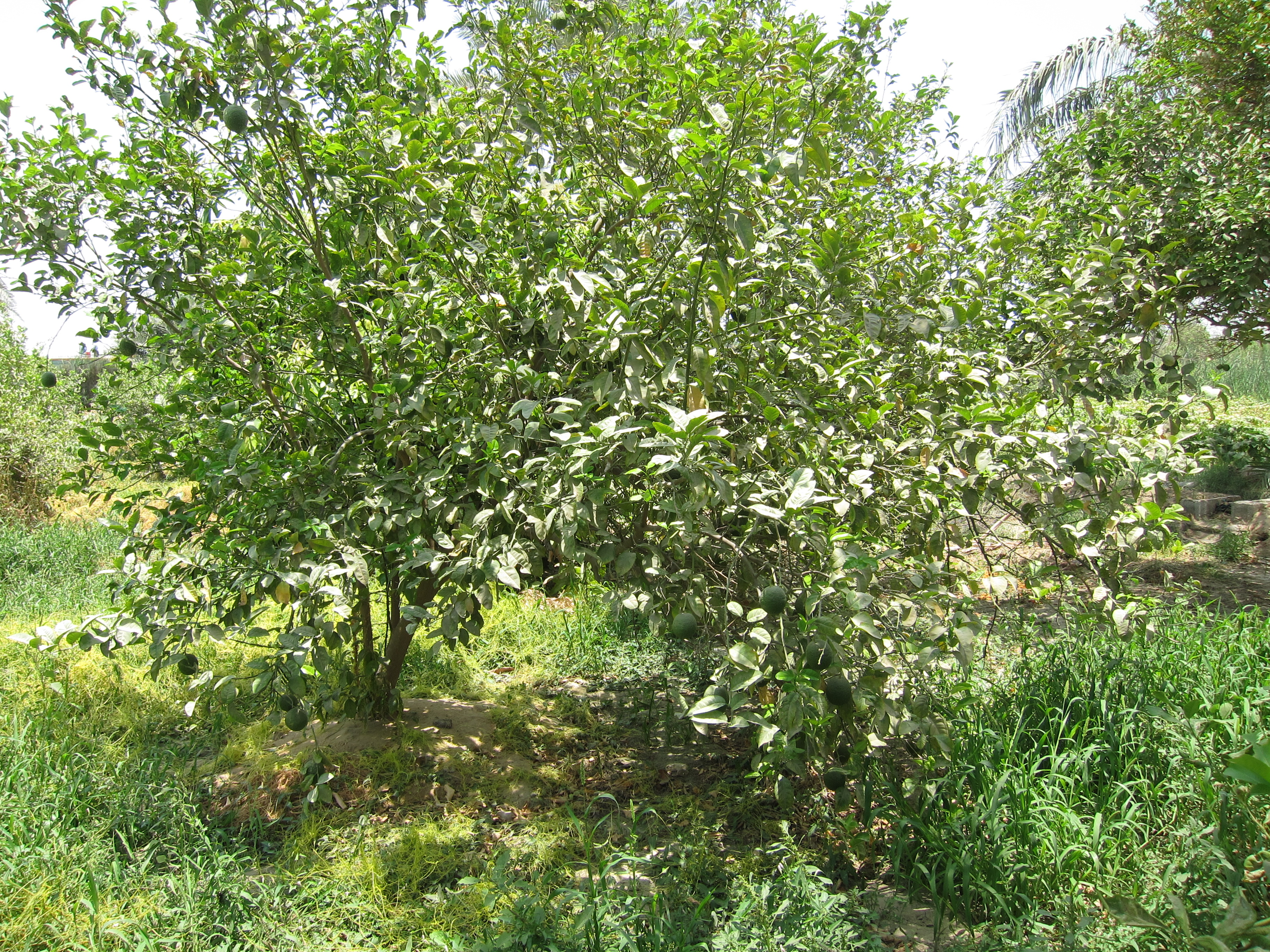 Citrus വടുകപുളി നാരകം, കൈപ്പൻ നാരകം, കറി നാരകം, കടുകപുളി നാരകം, വടുകപുളി നാരങ്ങ, കറിനാരങ്ങ, കടുകപുളി നാരങ്ങ